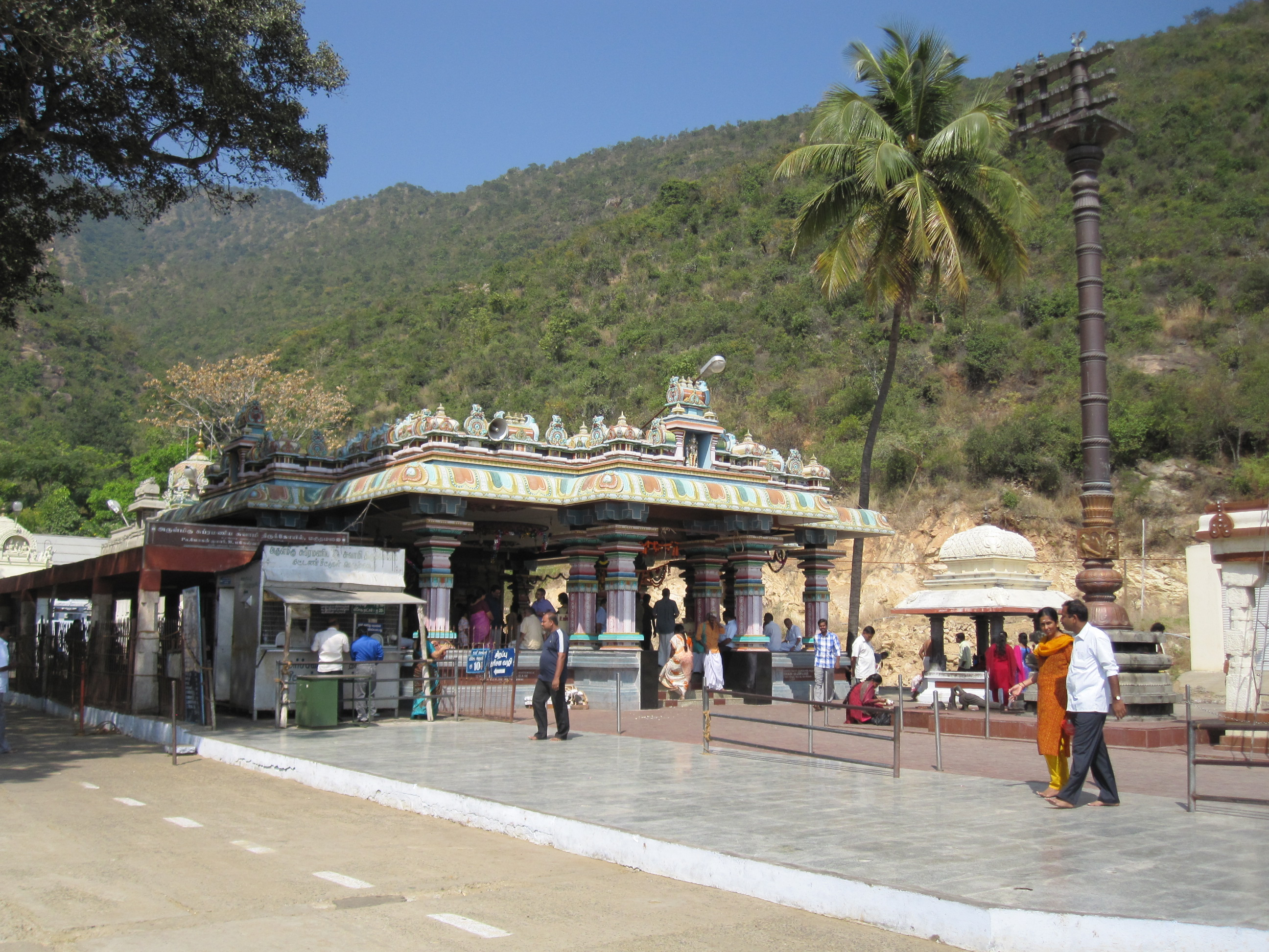 A long shot of front portionMarudamalai Temple. The flag pole and the background hills are visible. (This view of the temple is prior to the renovation in 2013)